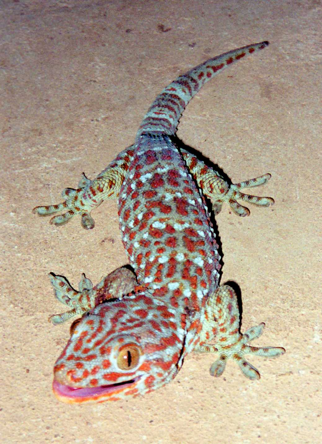 Tokay Gecko (Gekko gecko), Location: Vang Vieng, Laos